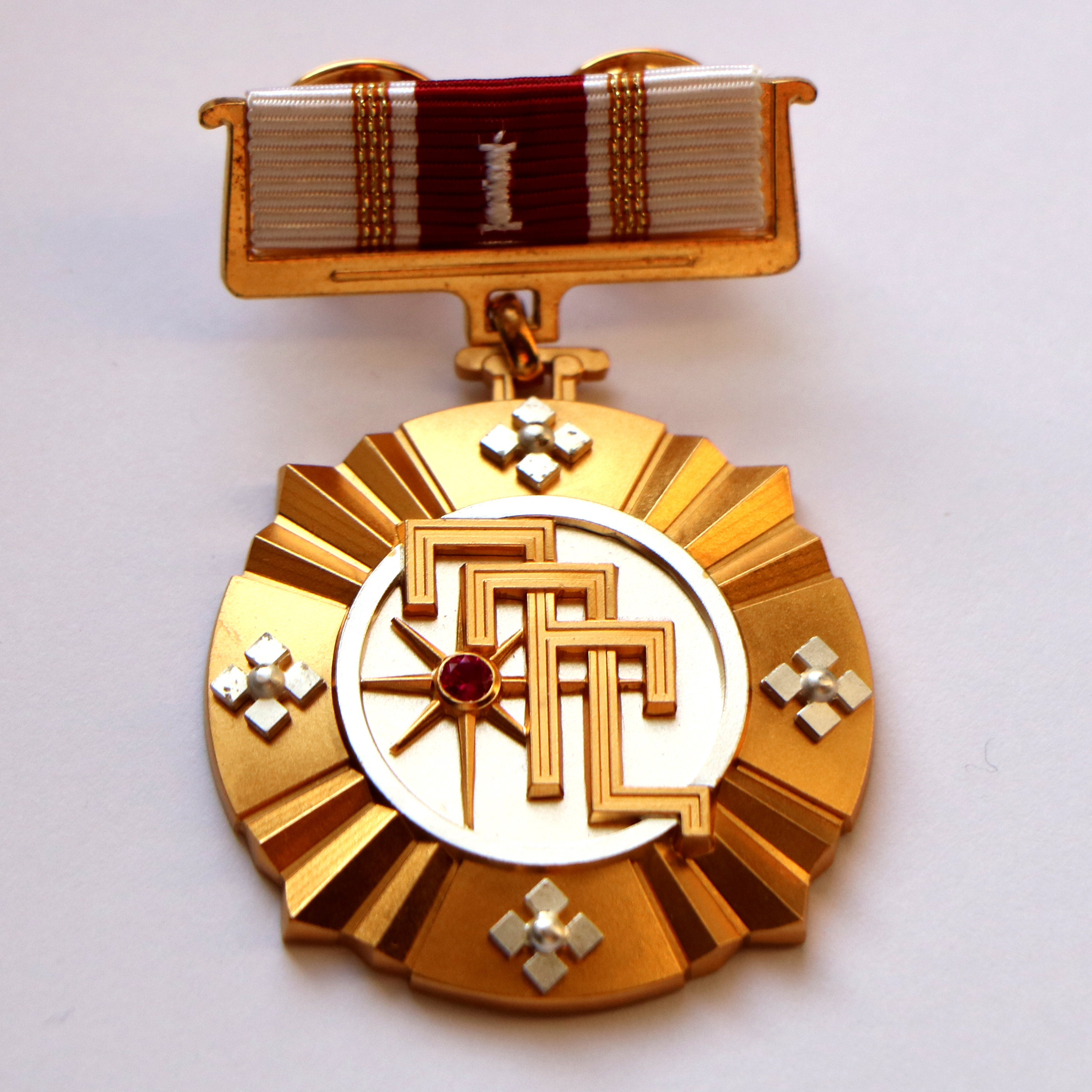 The Vakhtang Gorgasali I rank belonging to Alexander Berulava